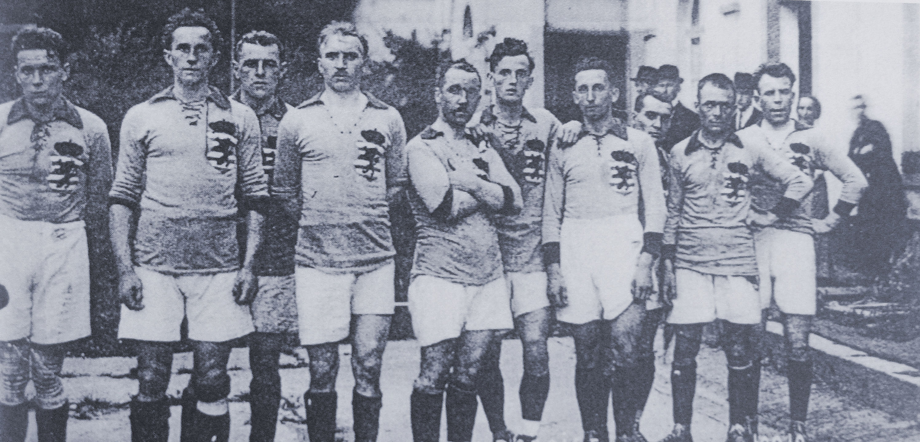 The Luxembourg national football team that played at the 1920 Olympic games.